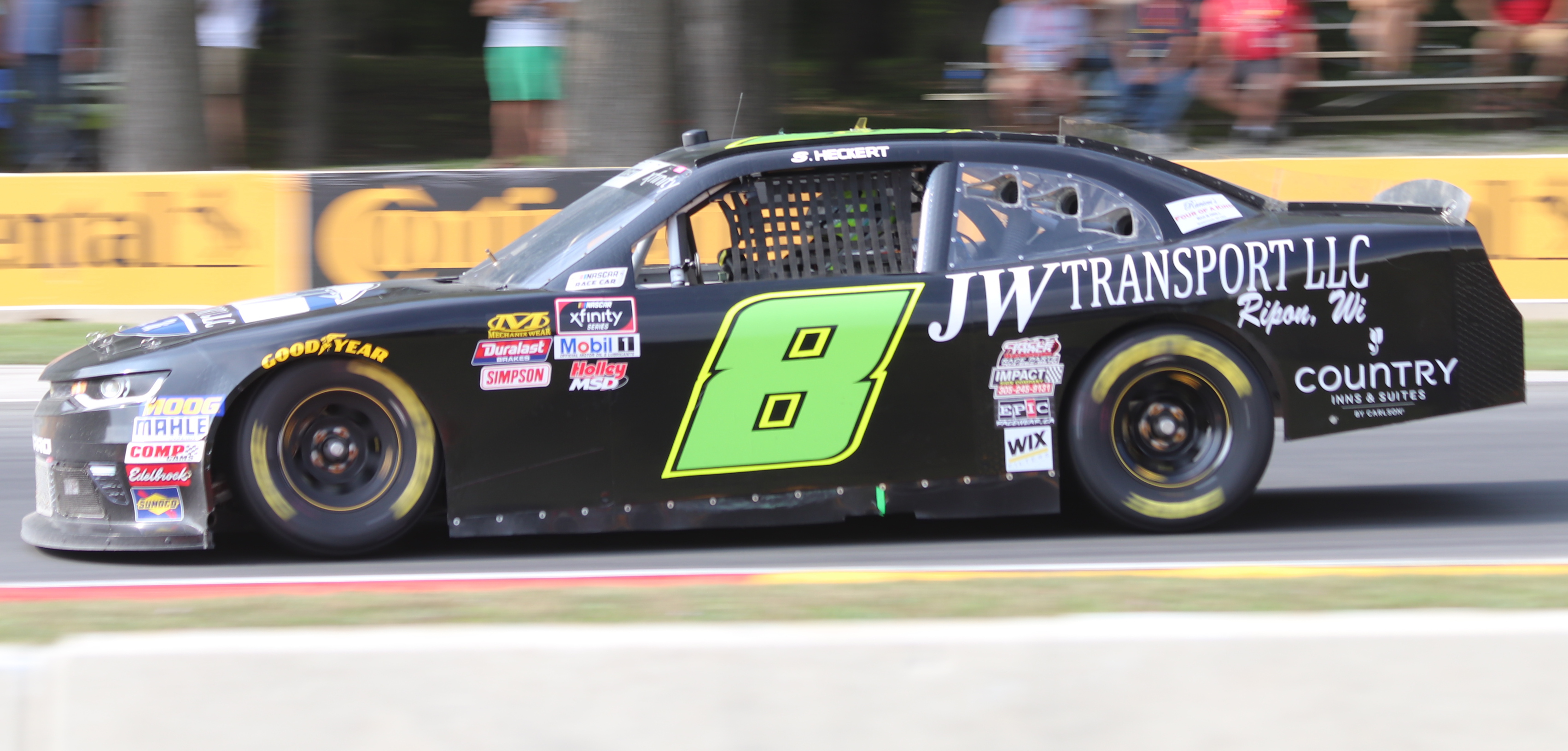 The Chevrolet Camaro of Scott Heckert racing in the #8 B.J. McLeod Motorsports car at the NASCAR Xfinity Series Johnsonville 180.